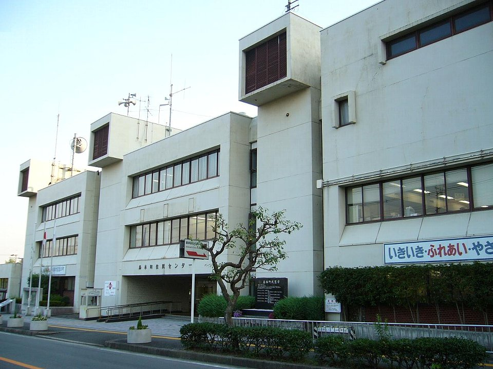 Town office of Shimamoto, Osaka prefecture, Japan